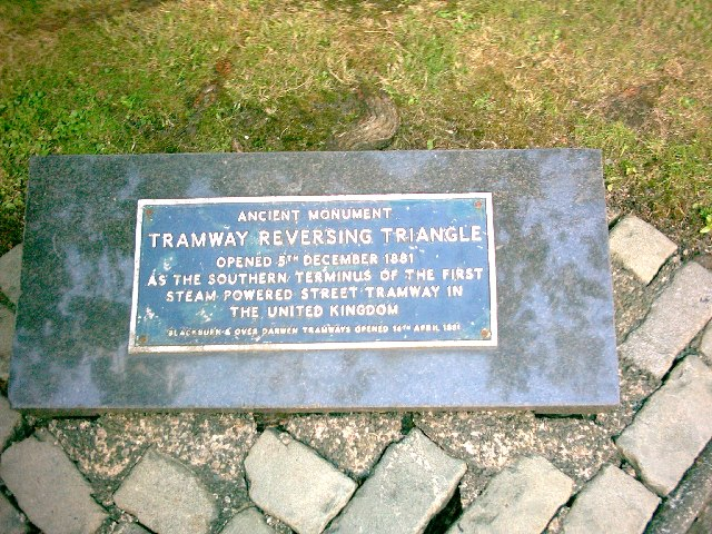 Tram Triangle Blue Plaque. Explanatory plaque for the Tram Turning Triangle in the other photograph.